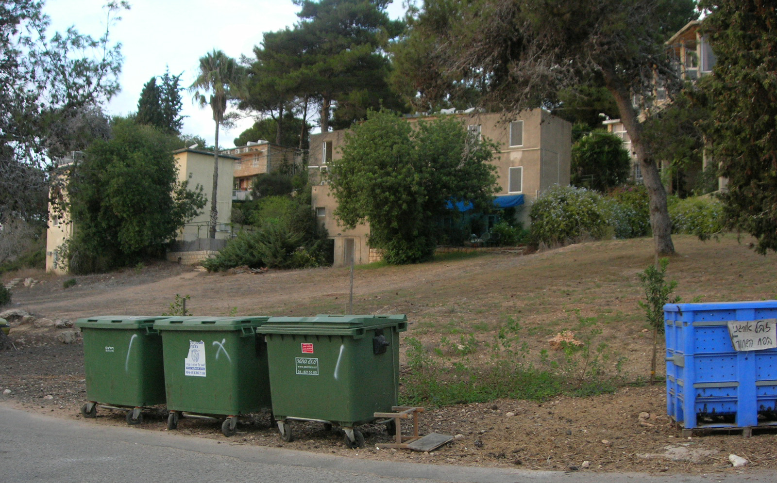 Kibbutz Bet Oren, Israel, September 2009